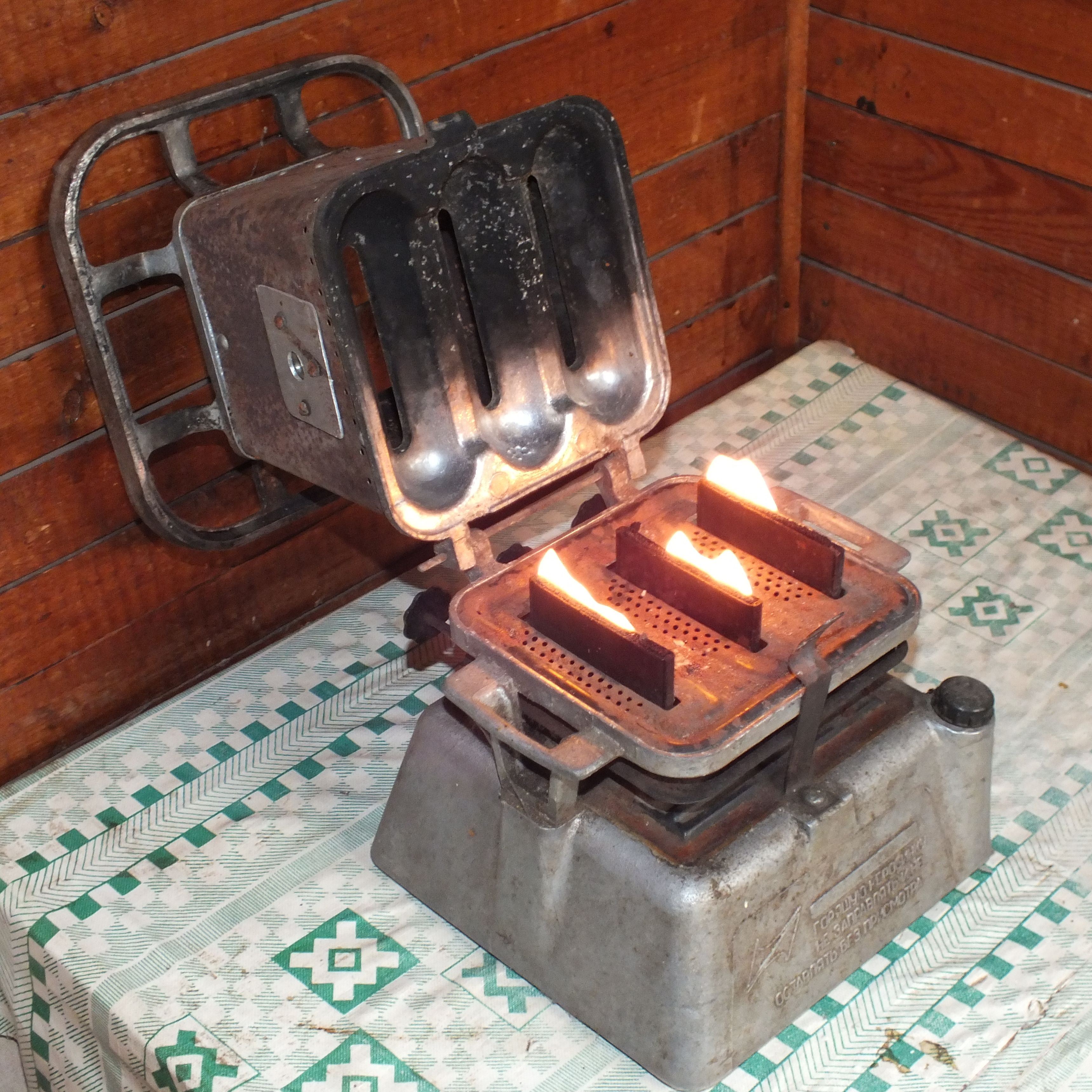 Керосинка